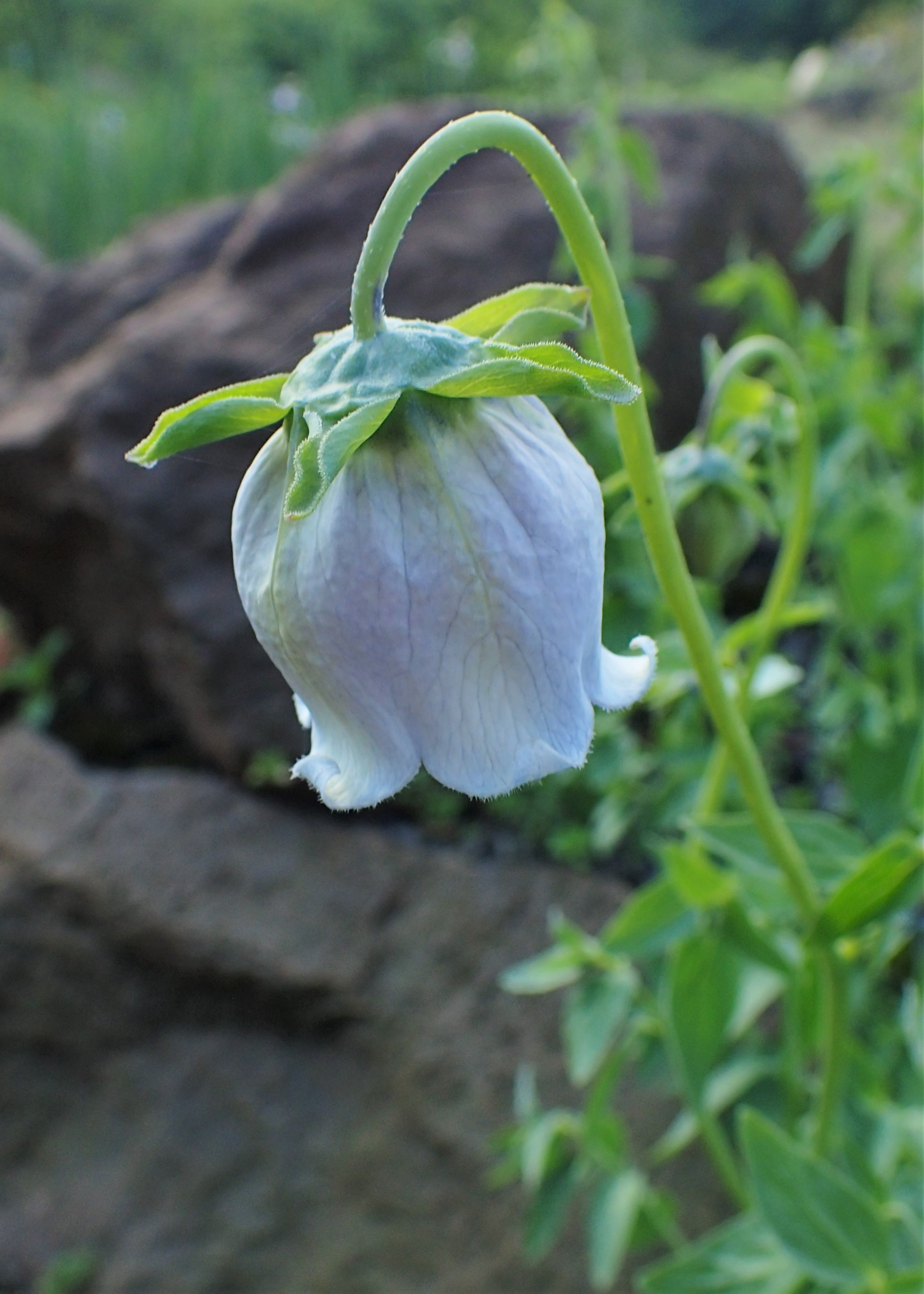 Codonopsis ovata in the Botanischer Garten, Berlin-Dahlem